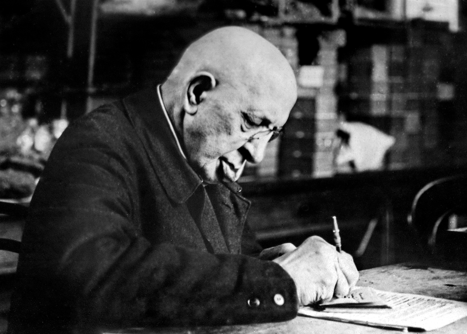 Vasiliy Vil'yams, 1930th